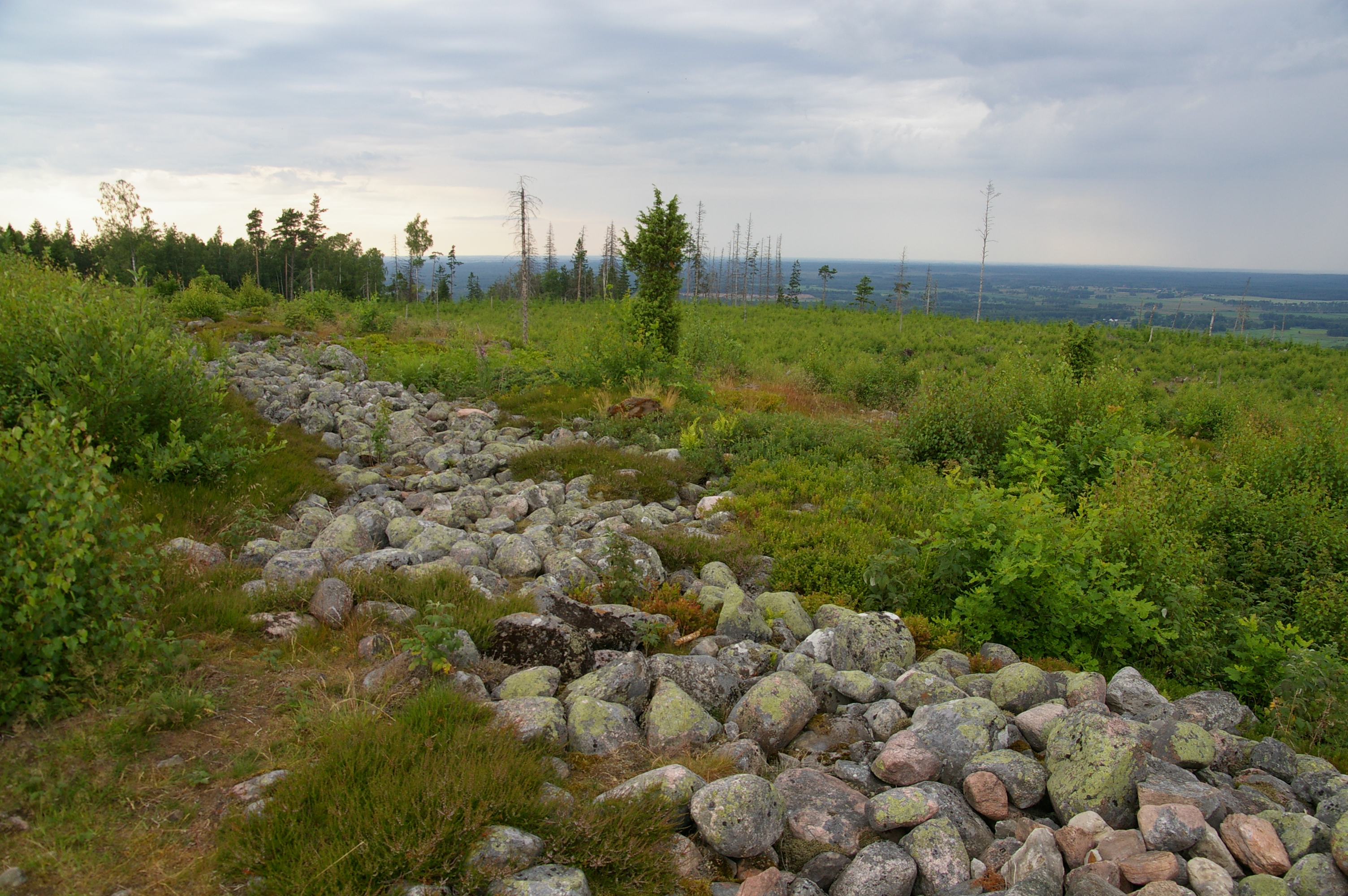 Hill Fort, "Träleborg", Mösseberg, Falköping, Sweden